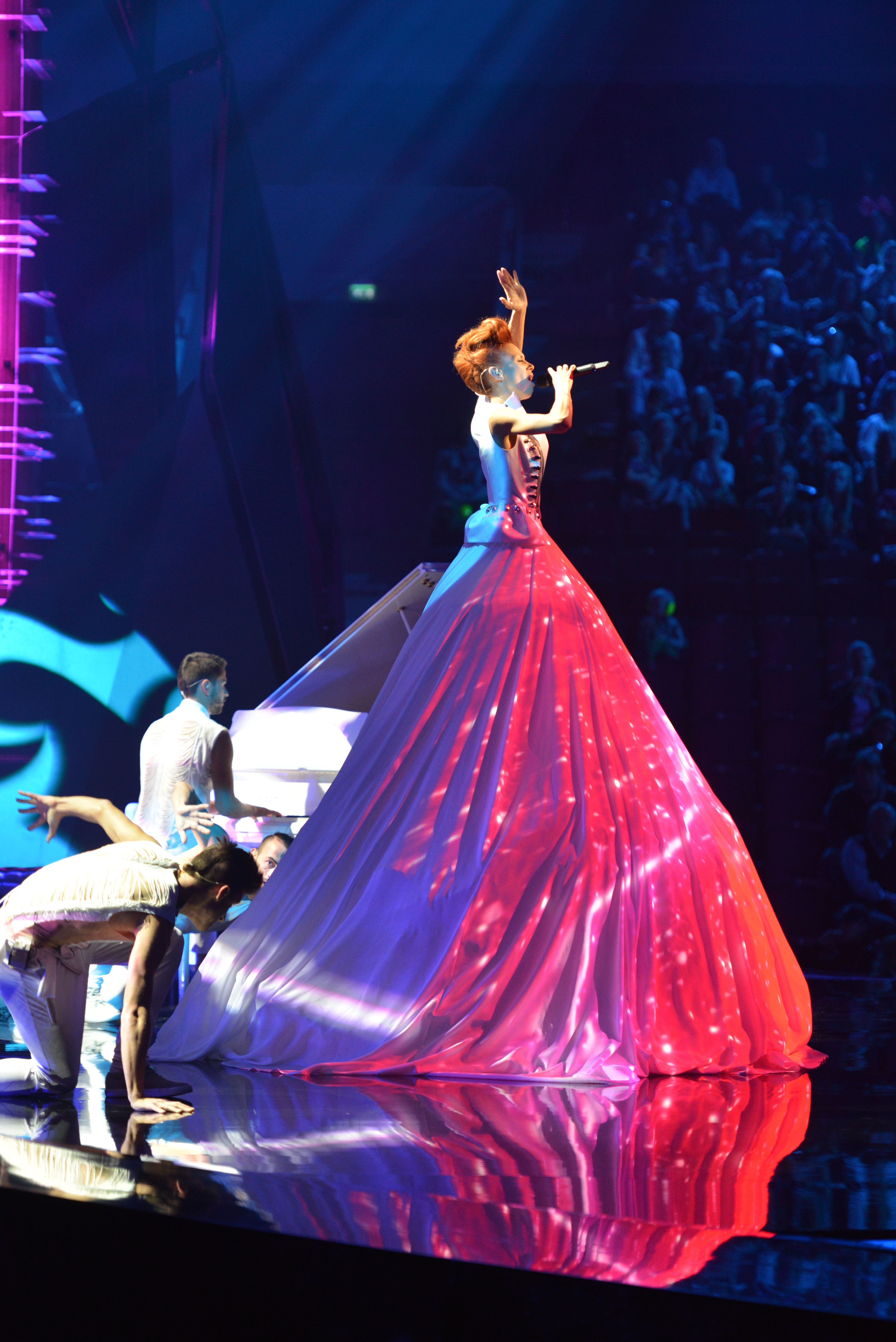 Aliona Moon representing Republic of Moldova with the song "O mie" during the third dress rehearsal of the first semi final of the Eurovision Song Contest 2013 in Malmö. (Help translate this text)